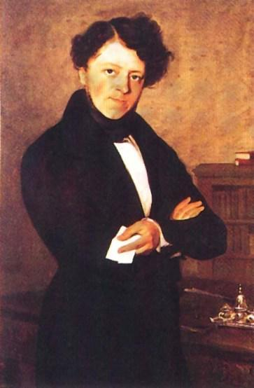 Picture of Baron de Forrester.